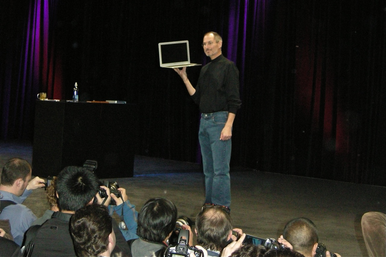 Apple CEO Steve Jobs demonstrates the MacBook Air during his keynote at the opening of Macworld 2008